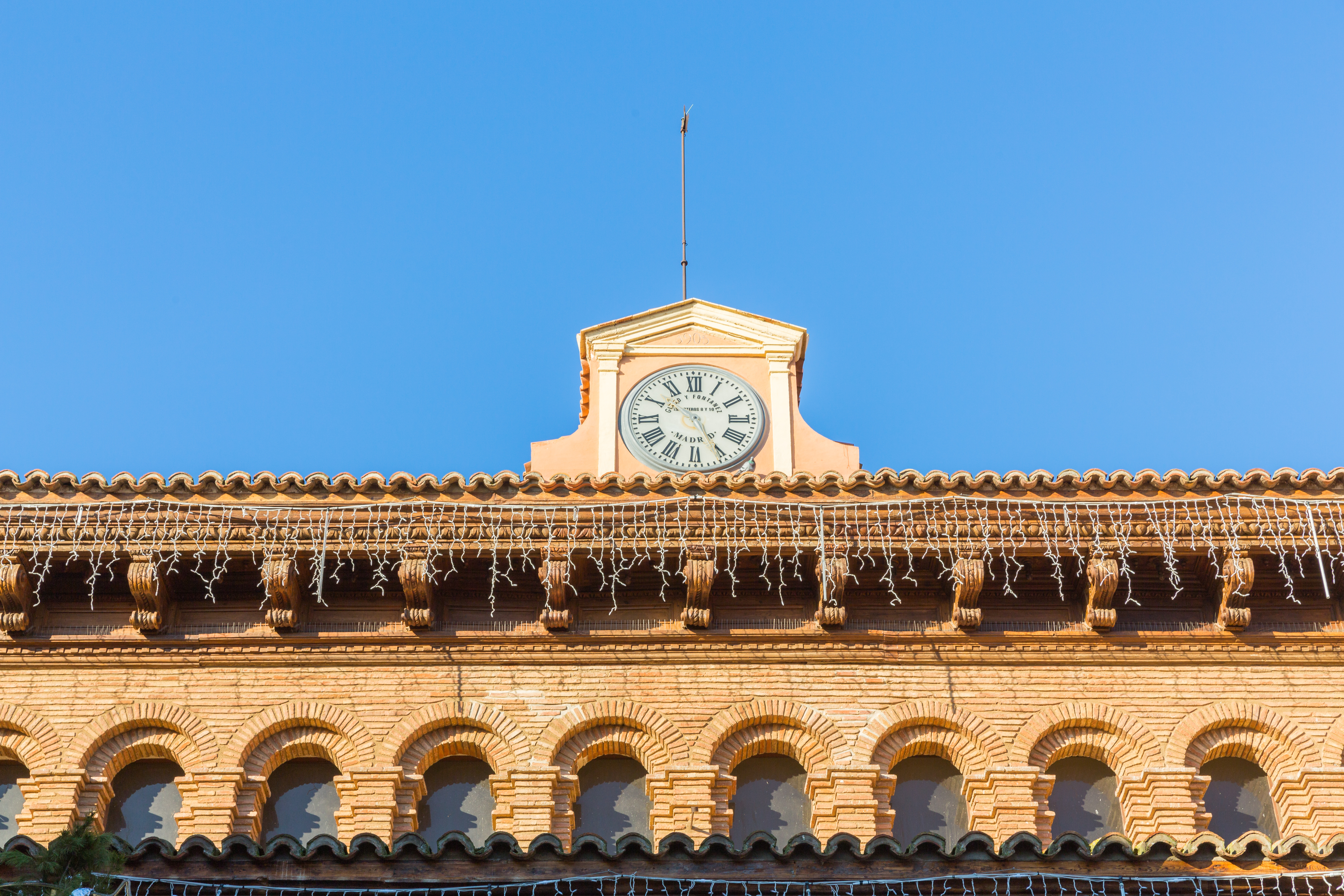 Town hall of Cariñena, Zaragoza, Spain